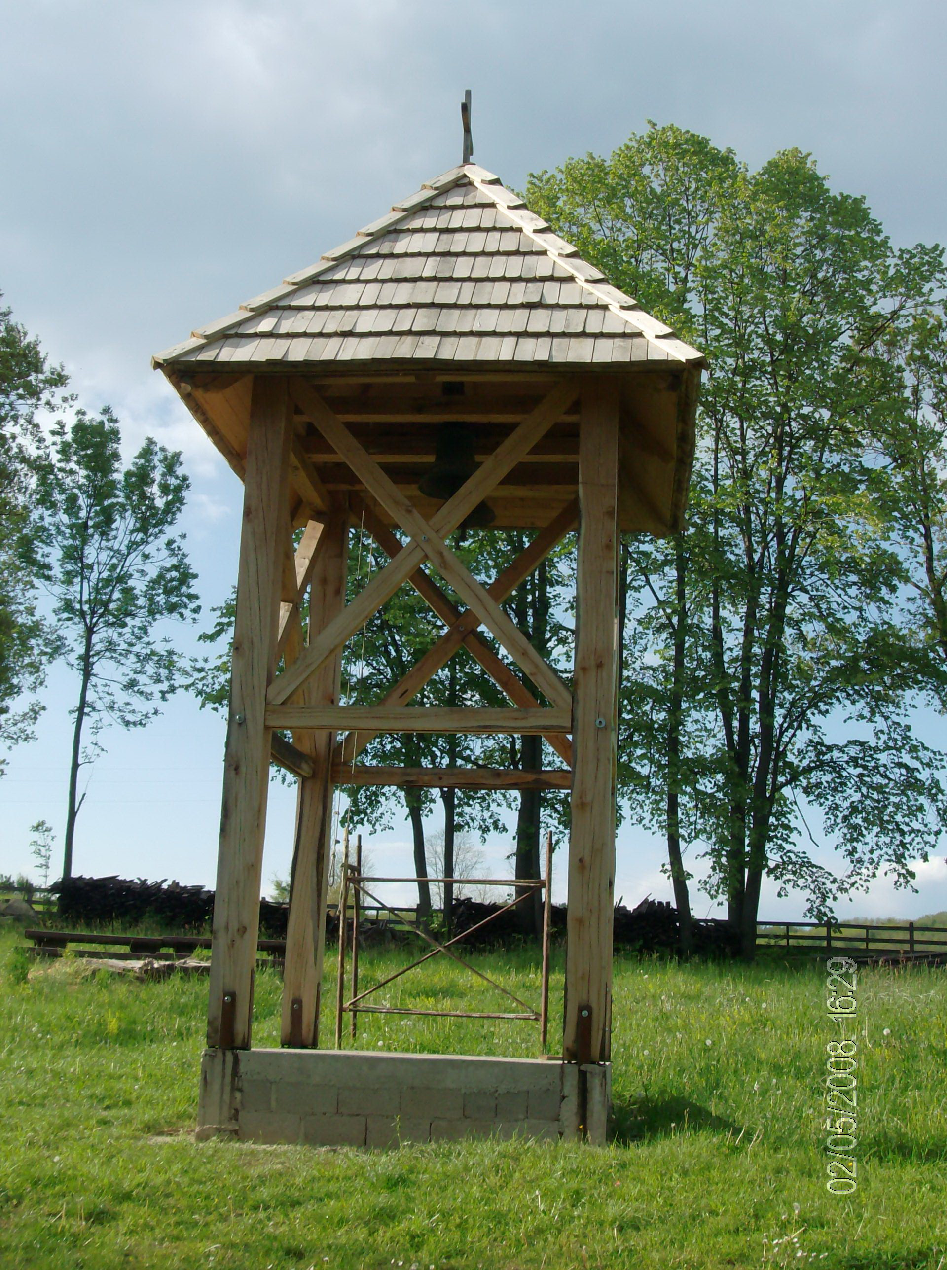 Orthodox church in Takovo